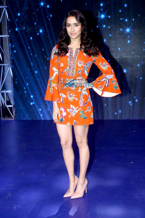 Shraddha Kapoor promote ‘Ok Jaanu’ on the sets of Indian Idol